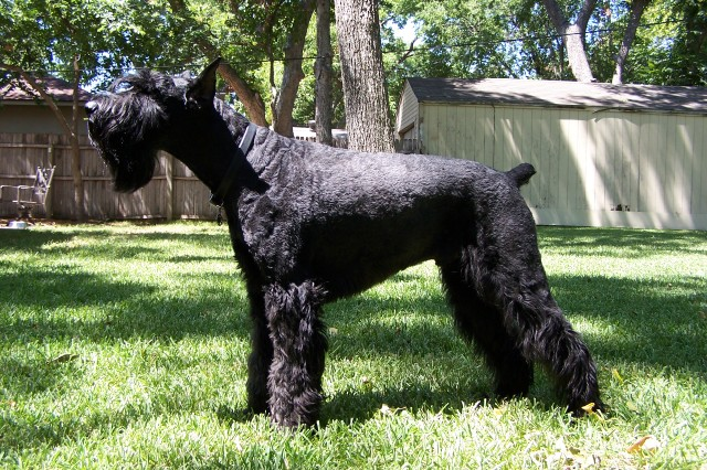 Sonnenschein's Lucky Strike